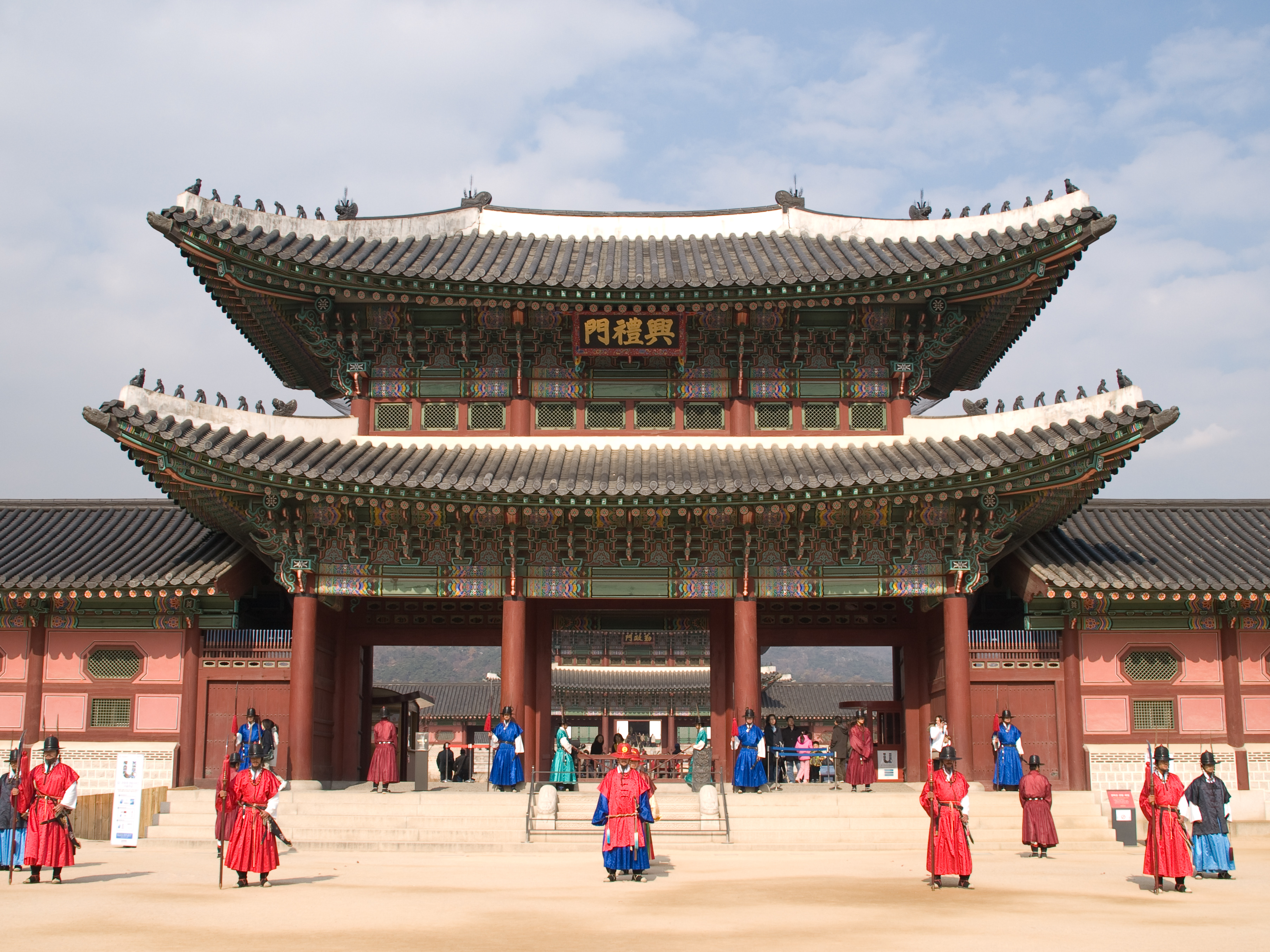 The changing of the guard ceremony at the Gyeongbokgung Palace.